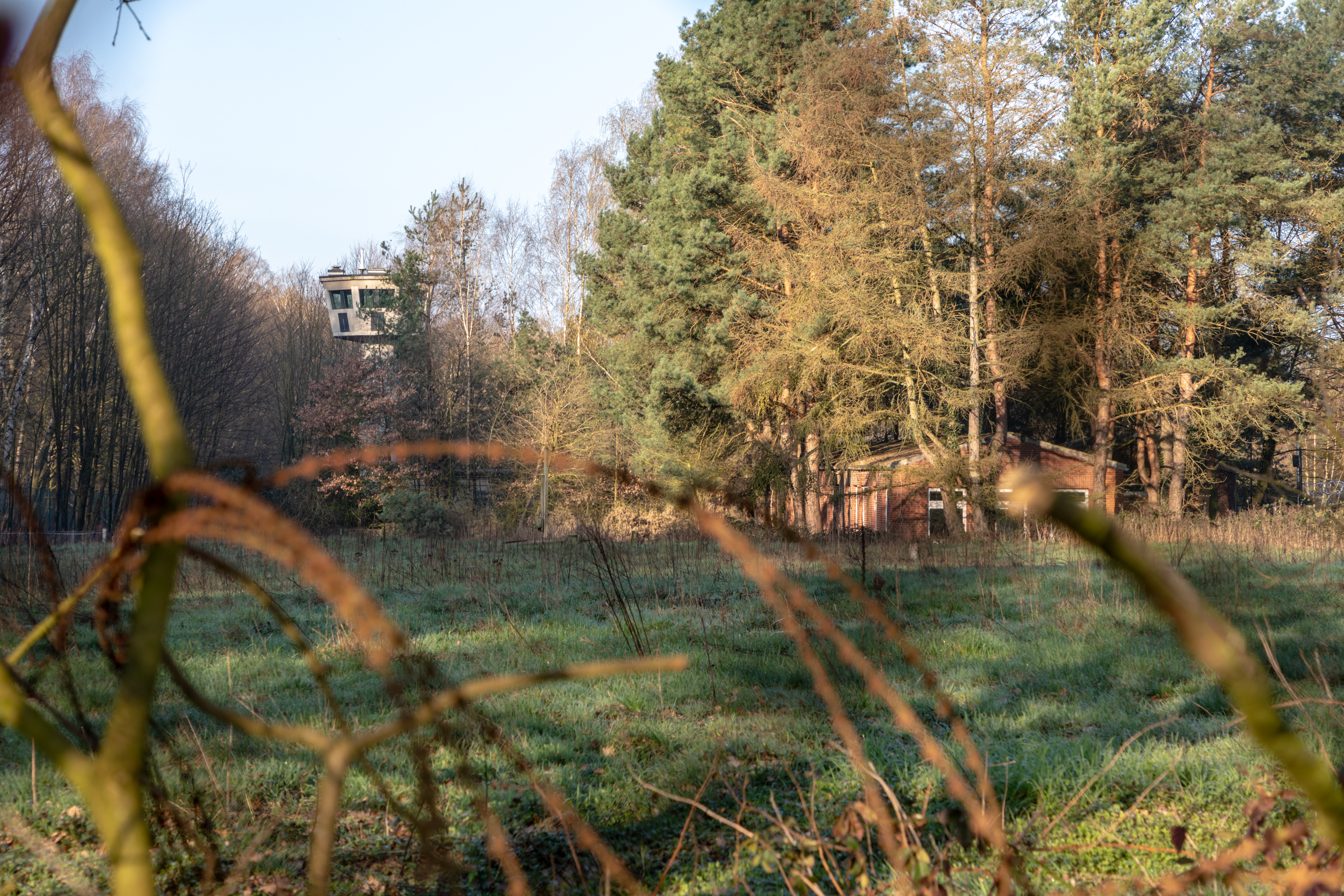 Former military arsenal in the Dernekamp hamlet, Kirchspiel, Dülmen, North Rhine-Westphalia, Germany This image shows a heritage building in Germany, located in the North Rhine-Westphalian city Dülmen (no. 132).